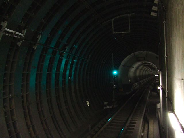 地下鉄工事などで活用されるシールドトンネル 撮影日：2006年 8月11日 撮影地：東京臨海高速鉄道りんかい線大井町駅（東京都品川区大井） 撮影者：cory Shield tunnel used to construct subway. Date: 2006-08-11 (Aug 11, 2006) Place: TWR Oimachi Station, Oi Shinagawa Tokyo, Japan. Author: ISAKA Yoji (cory)